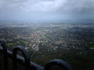 view from Victoria Rock Lookout